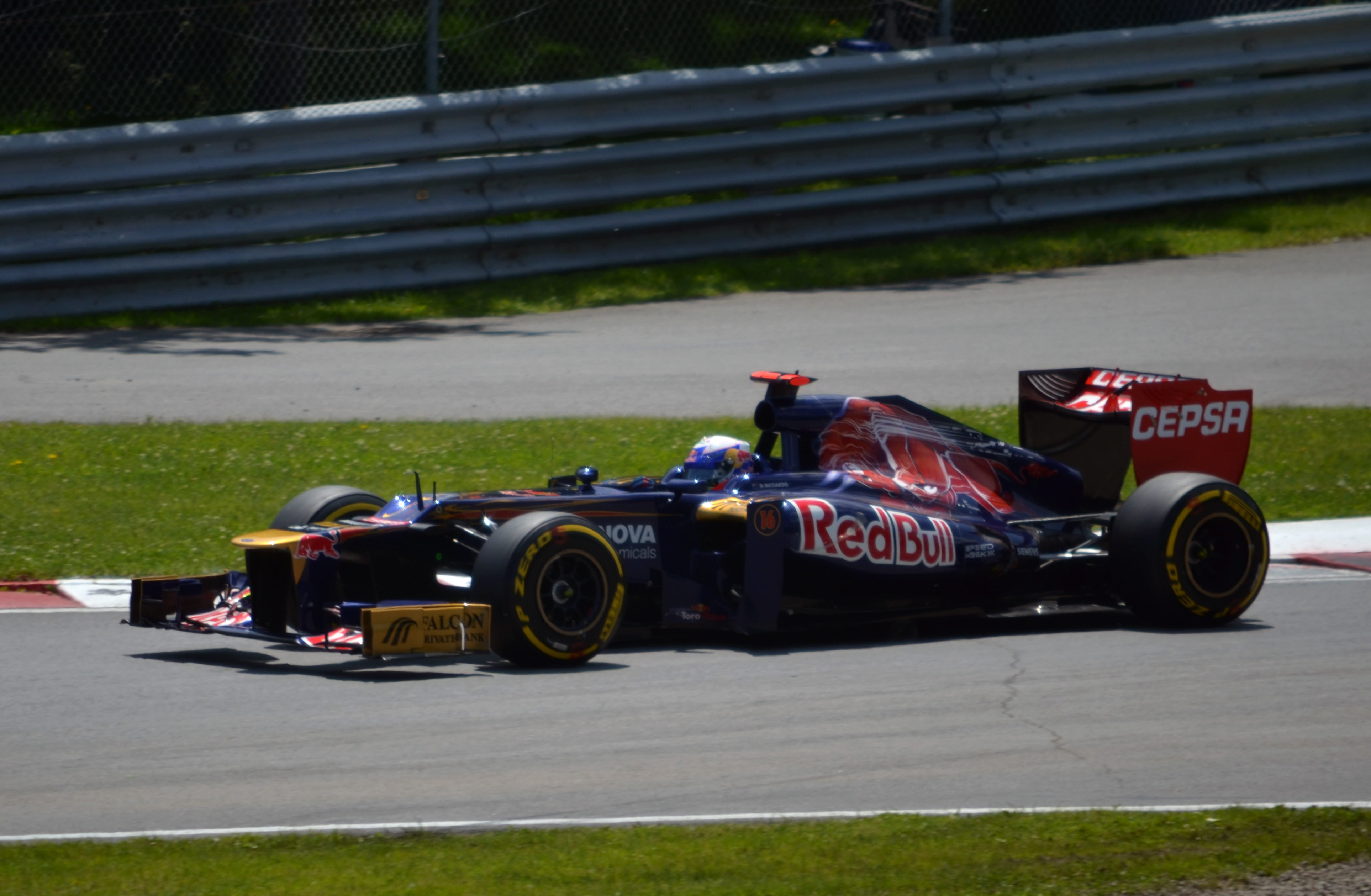 Daniel Riccardo during qualifying for the 2012 Canadian Grand Prix